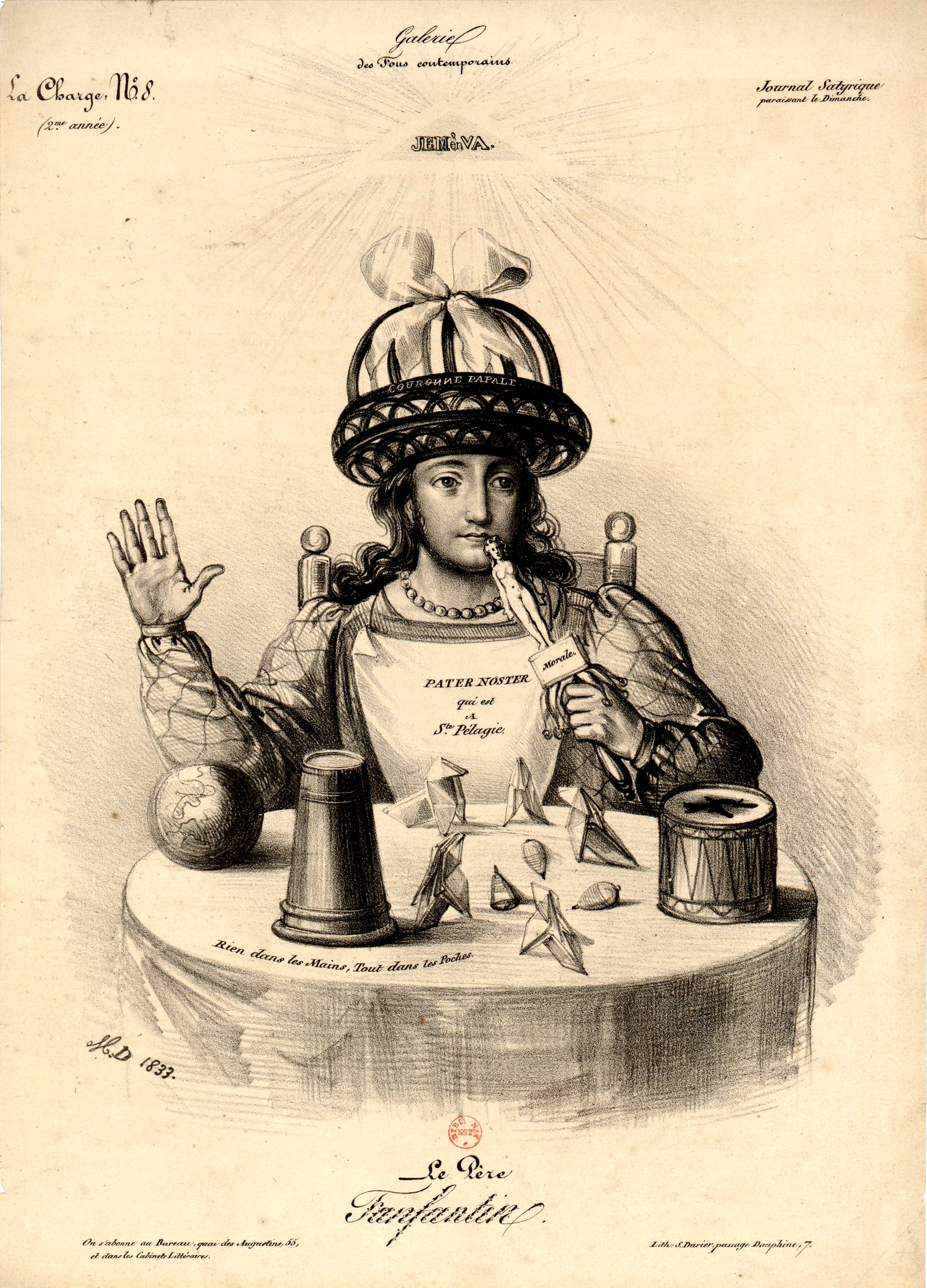 Caricature of Prosper Enfantin (1796–1864), French social reformer, one of the founders of Saint-Simonianism as “le Père Fanfantin”, in Sainte-Pélagie (an insane asylum). On s'abonne au Bureau, Quai des Augustins 55, et dans les Cabinets Littéraires